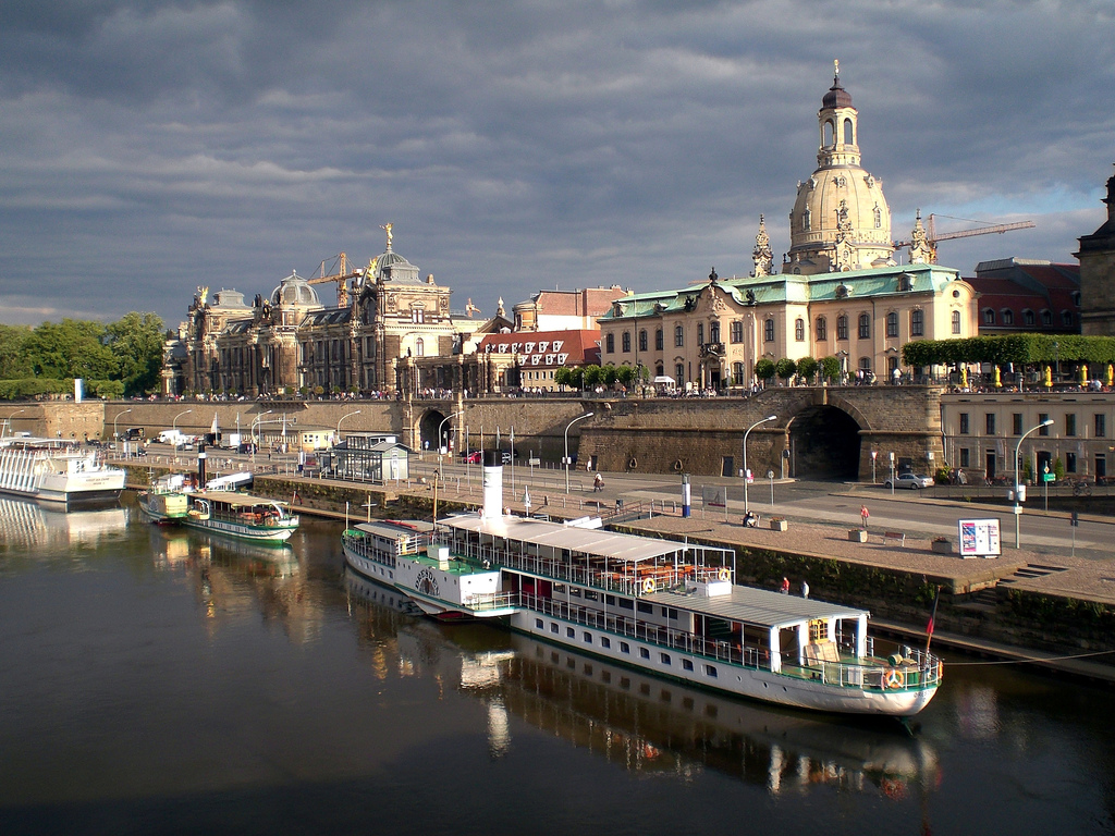 View of the old town of Dresden, Germany, across the Elbe river. On the left, the Academy of Arts, on the right, the Frauenkirche.